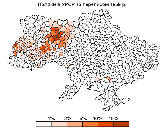 Share of ethnic poles according to 1959 census